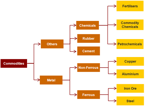 Diff. Types OF Commodities and their sub types